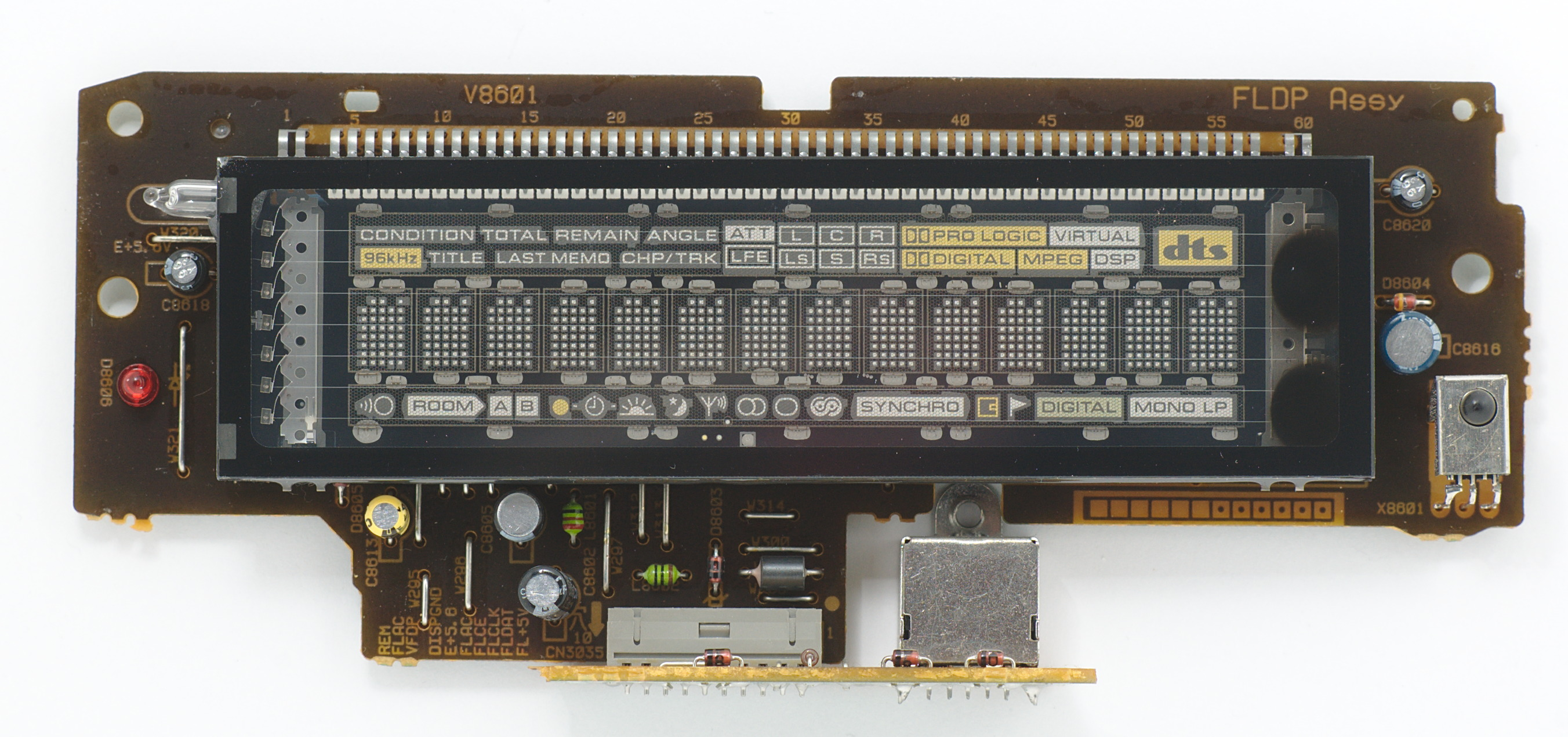 Vacuum fluorescent display used in a Pioneer home theater system.